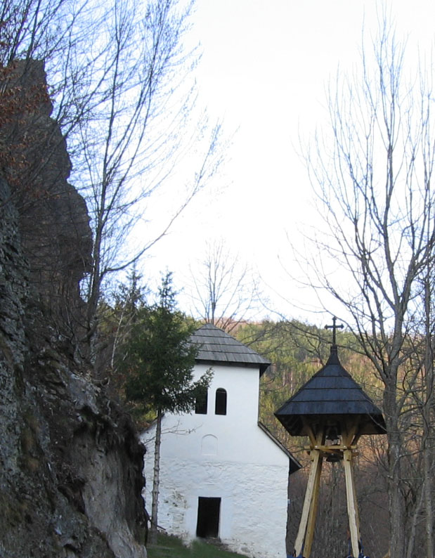 Kovilje monastery near Ivanjica